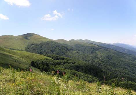 Picture of Belasitsa Mountain